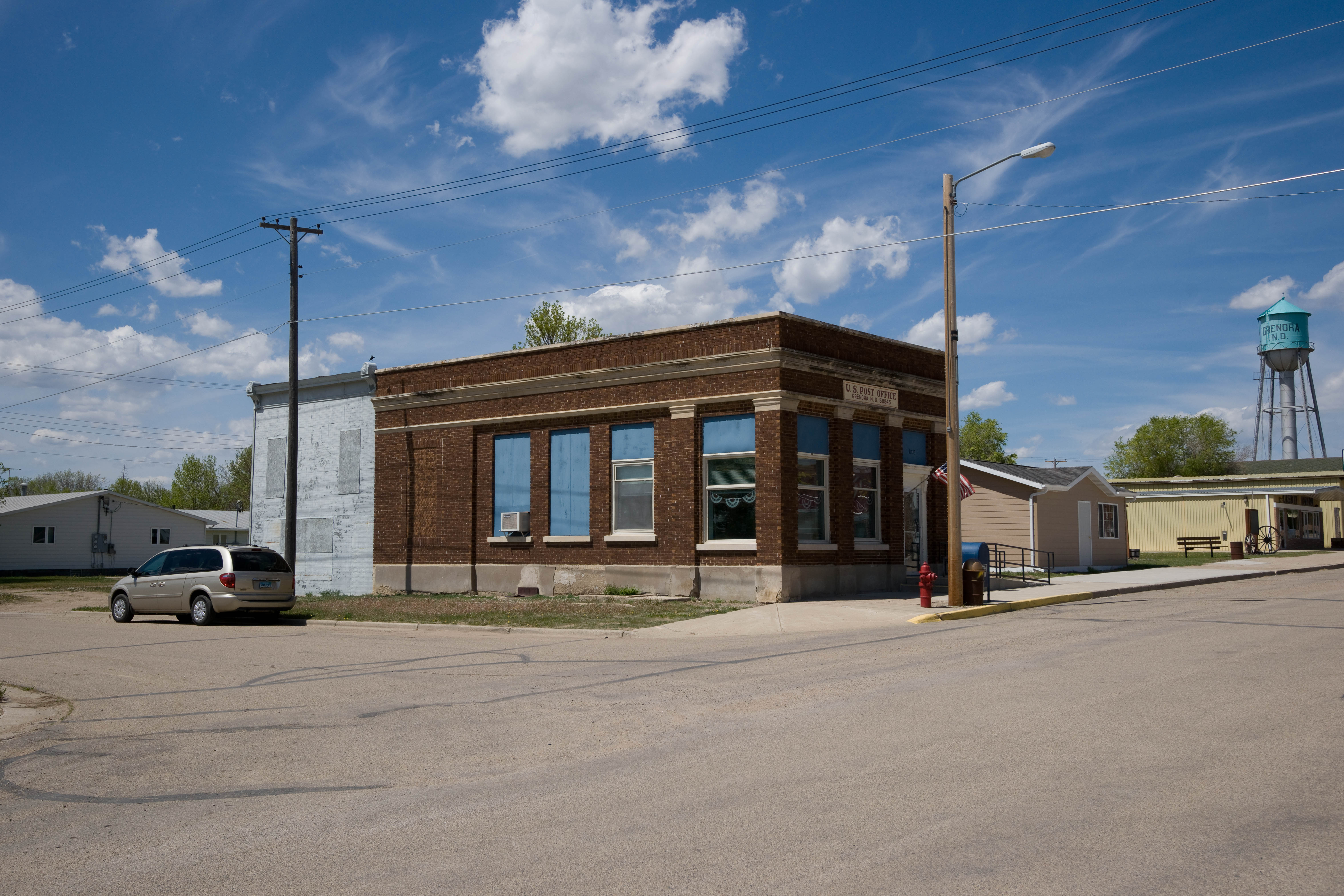 A street in Grenora, North Dakota.